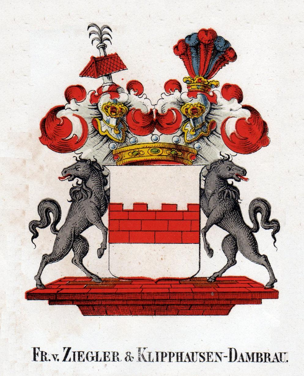 Coat of arms of the Barons of Ziegler und Klipphausen-Dambrau